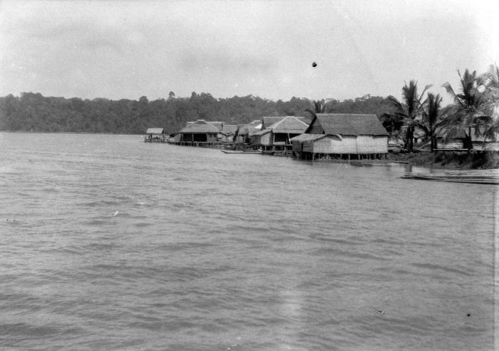 Pile village in the Segara Anakan